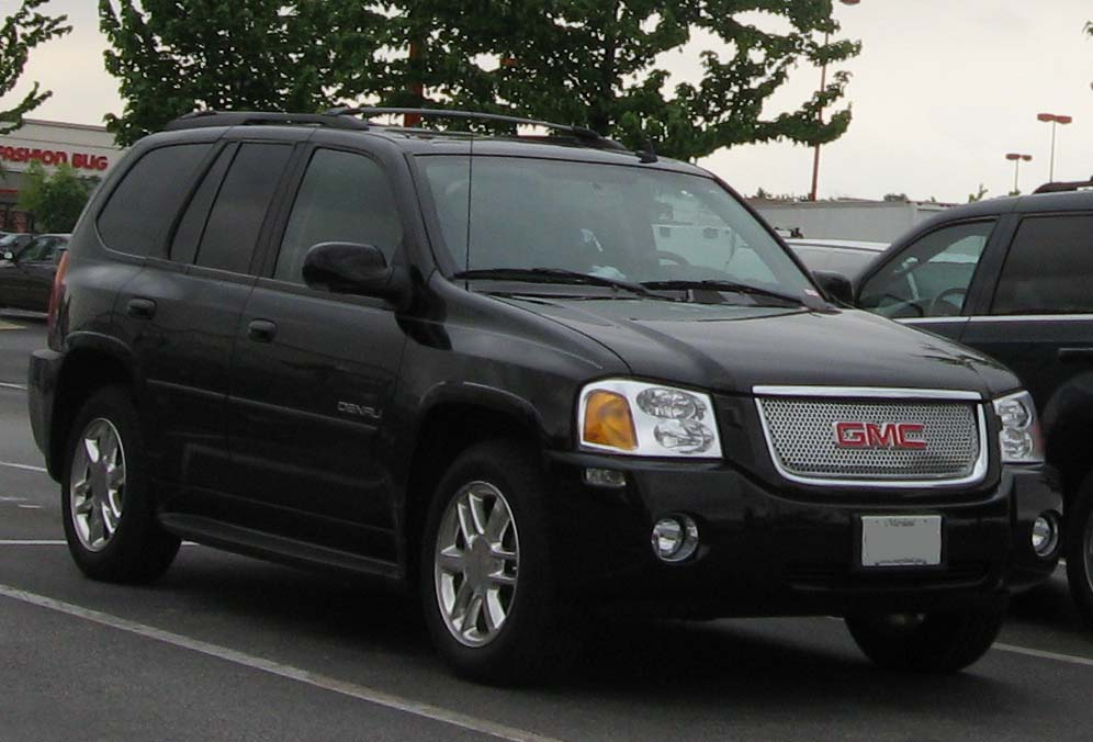 2005-2007 GMC Envoy photographed in USA.